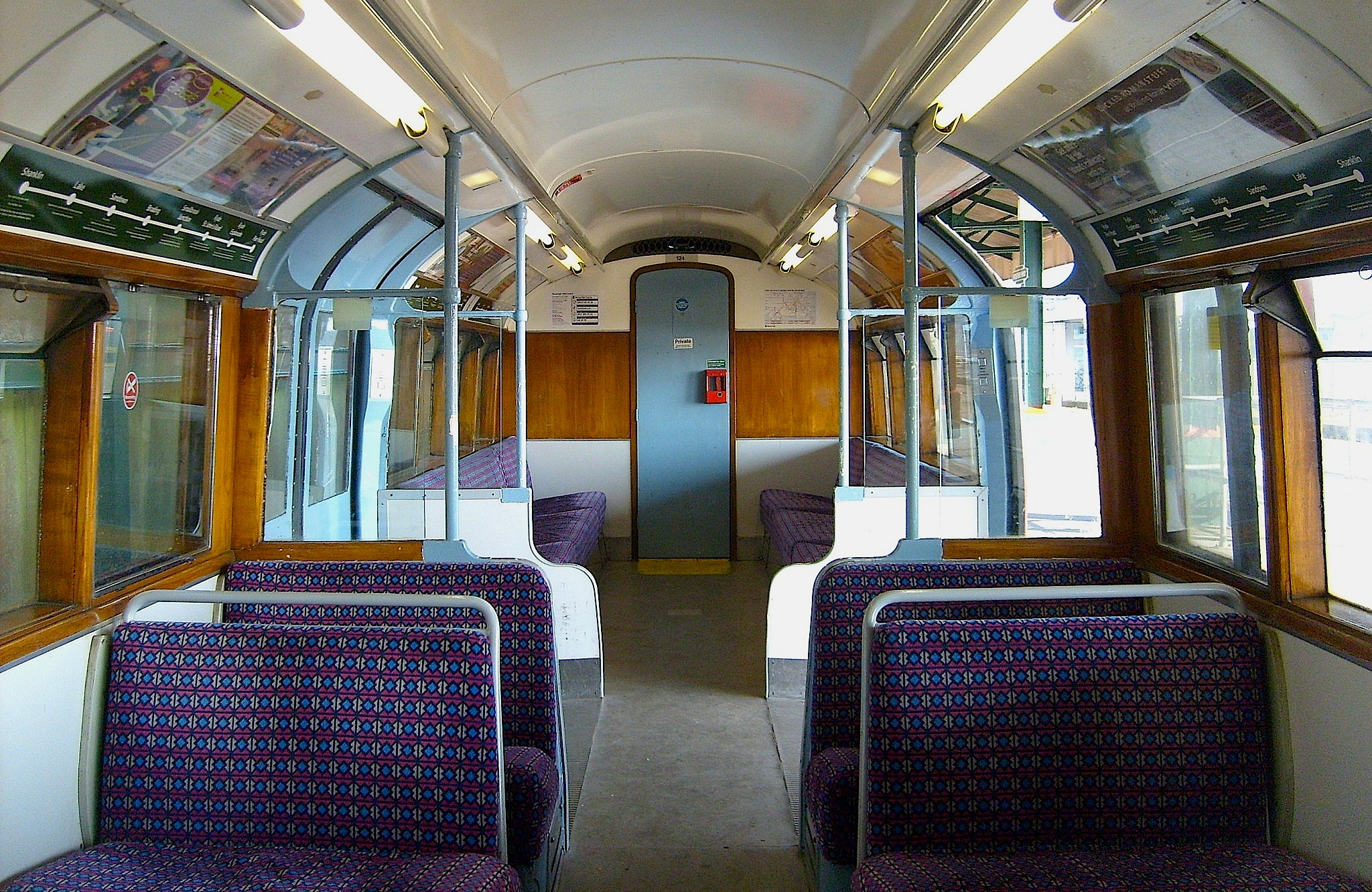 The refreshed interior of an Island Line Class 483 EMU